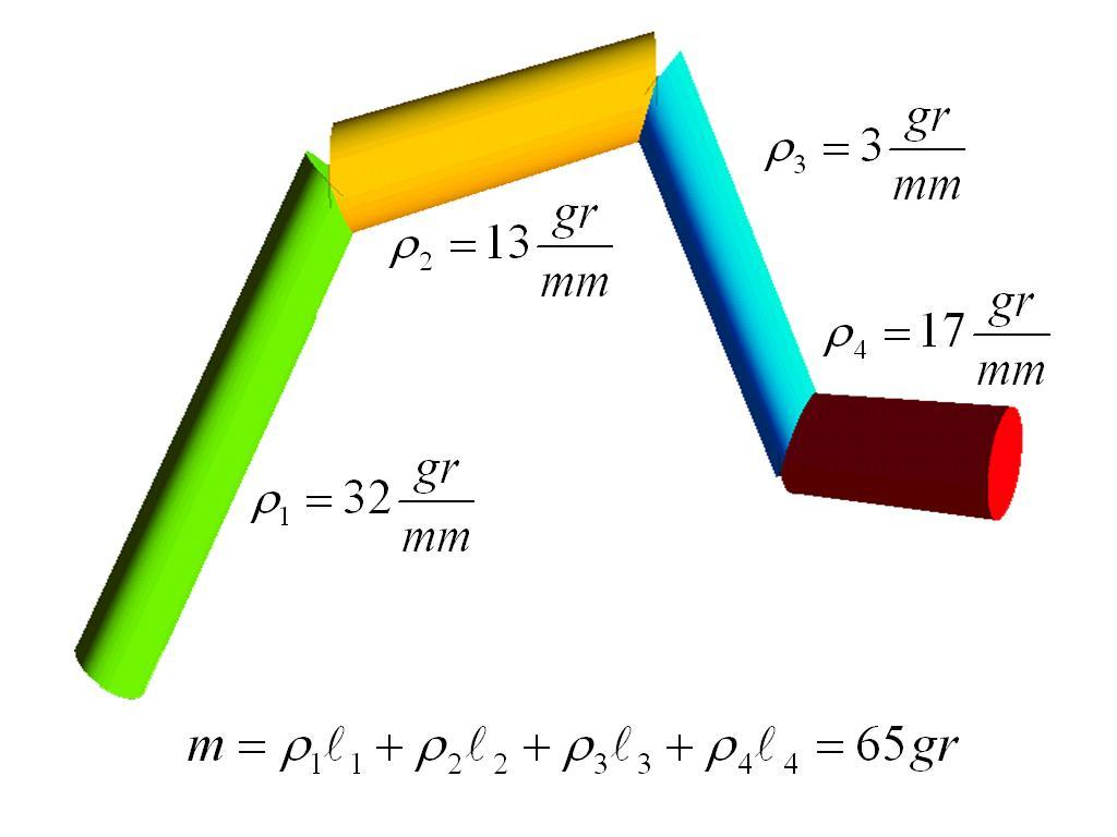 A mass of a curve can be approximated by the sum of the products of stright lines which approximate it with the local destinies.